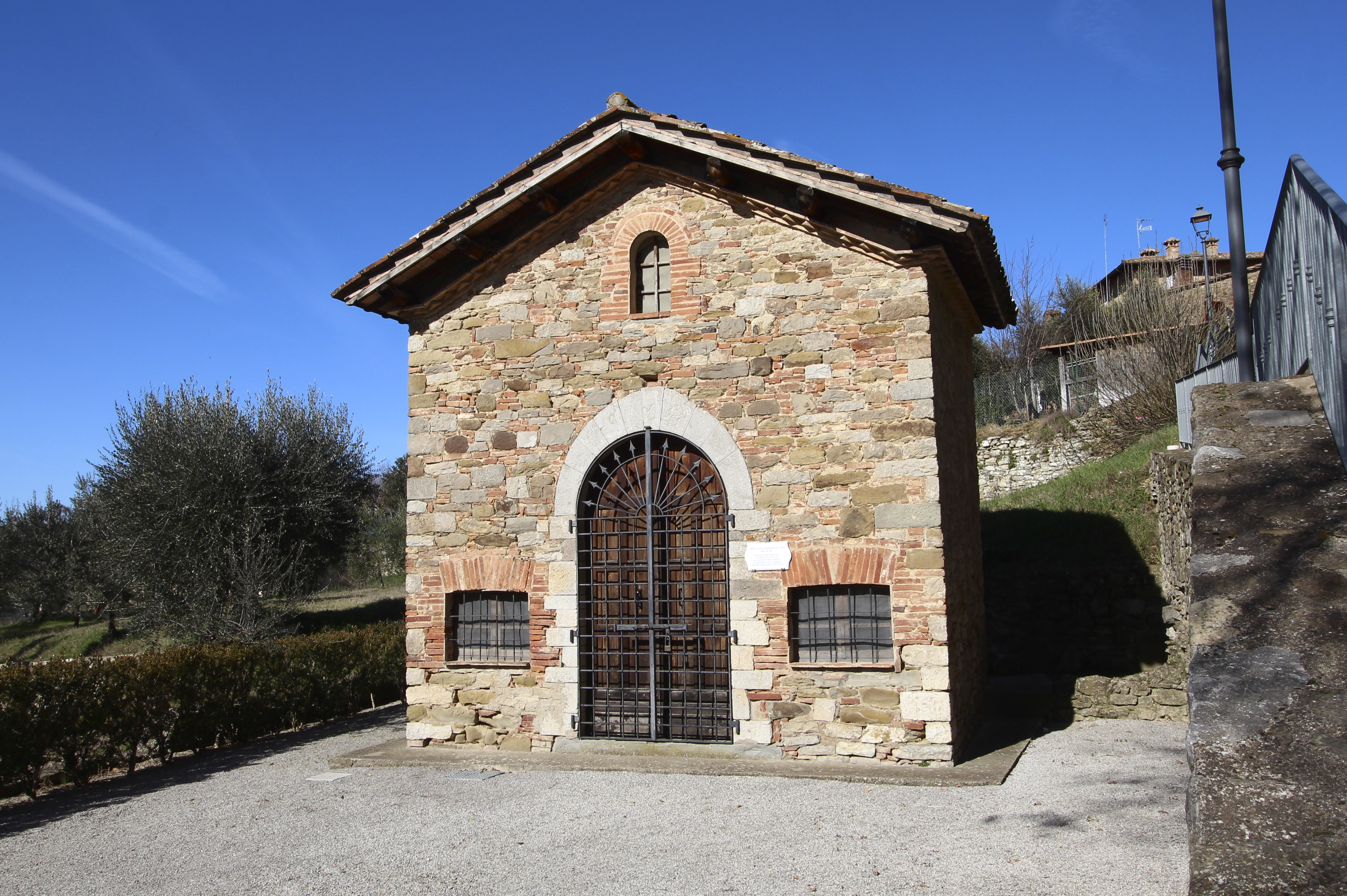 Church Madonna del Fosso, Pietrafitta, hamlet of Piegaro, Province of Perugia, Umbria, Italy